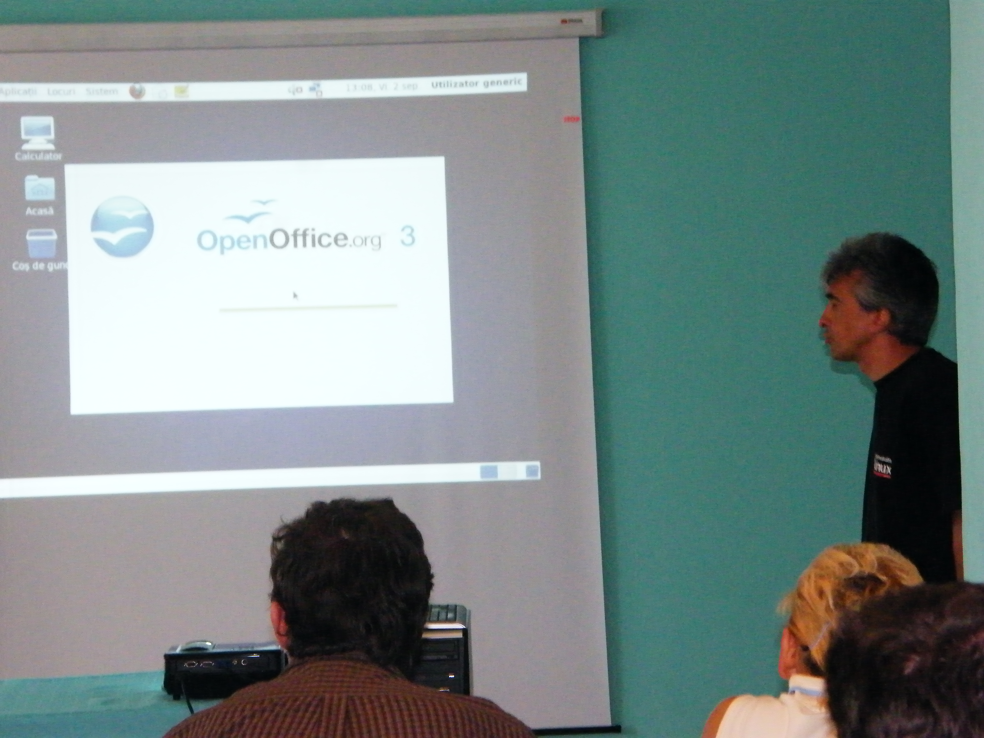 The group from "Informatica la Castel" Free Software Summer School 2011, during installation of CentOS 6 and - Macea, Arad County, Romania.